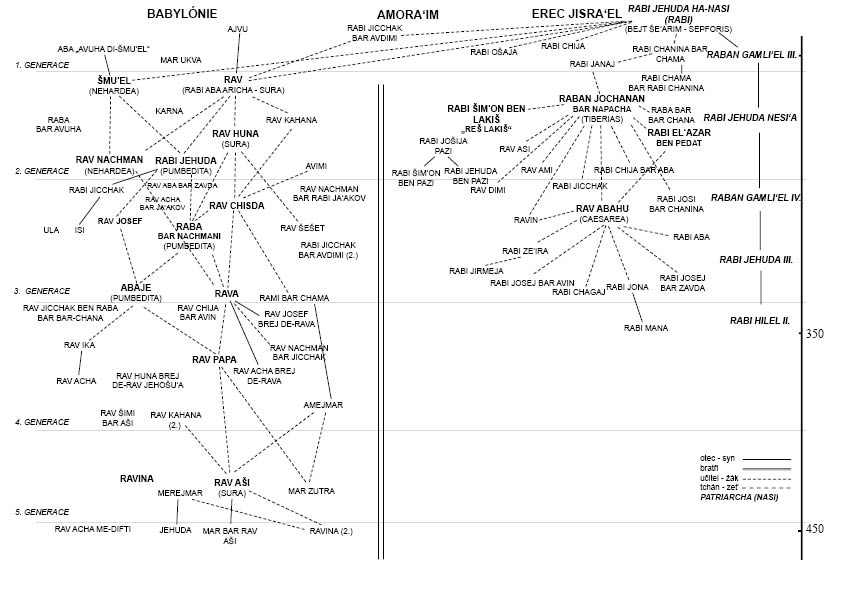 Succession of Rabbinic scholars in Talmudic period.